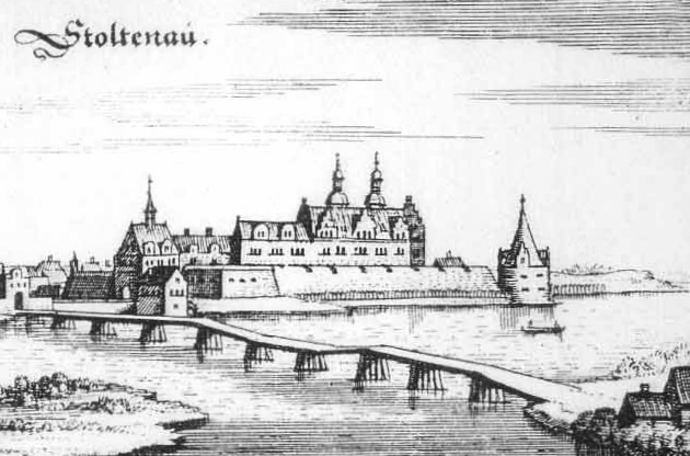 This is a scan of the historical document